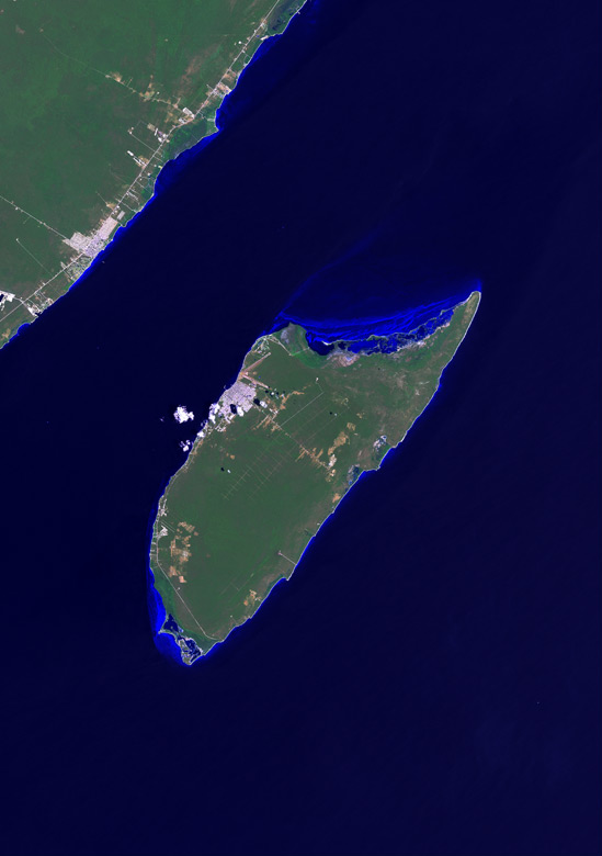 Satellite Image of Cozumel. Cozumel is an island in the Caribbean Sea off the eastern coast of Mexico's Yucatan Peninsula, opposite Playa del Carmen. It is one of the eight municipalities (municipios) of the state of Quintana Roo. Cozumel is a popular tourist destination renowned for its scuba diving. The main town on the island is San Miguel.